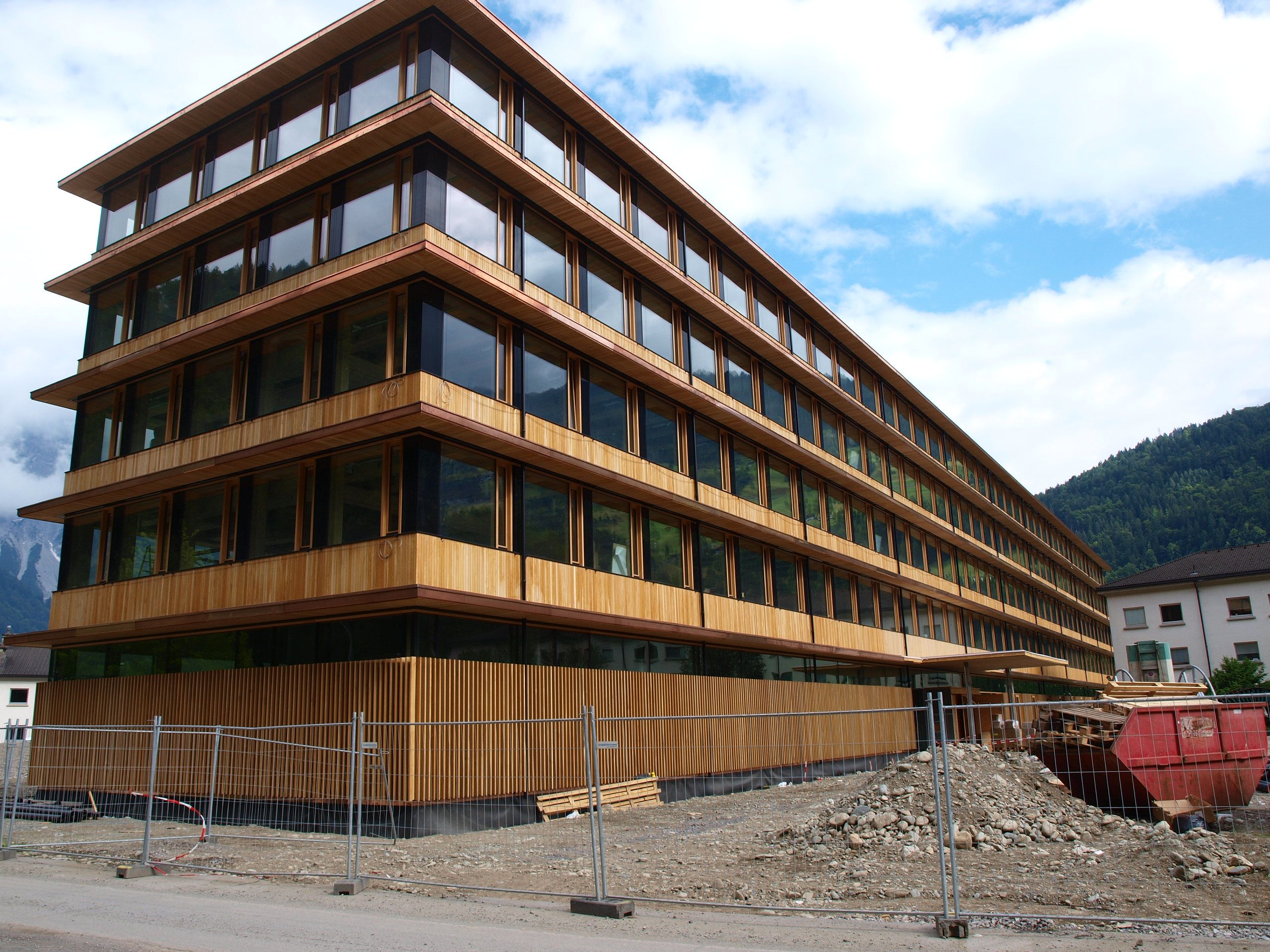 LCT TWO (LifeCycle Tower No. 2), Vandans, Vorarlberg Austria. multifunctional demonstrationbuilding in wood-boltwork. South-Eastside of the building (under construction).